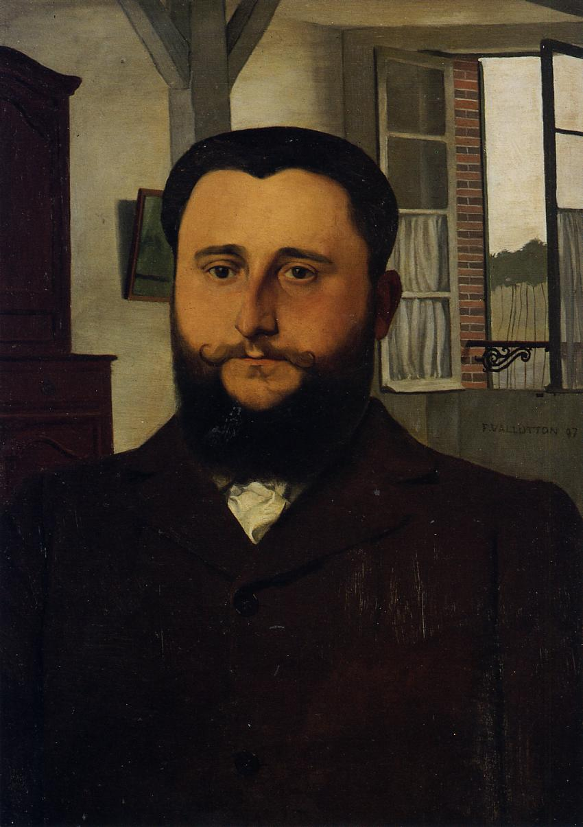 Portrait of Thadée Natanson, editor of "La Revue blanche"